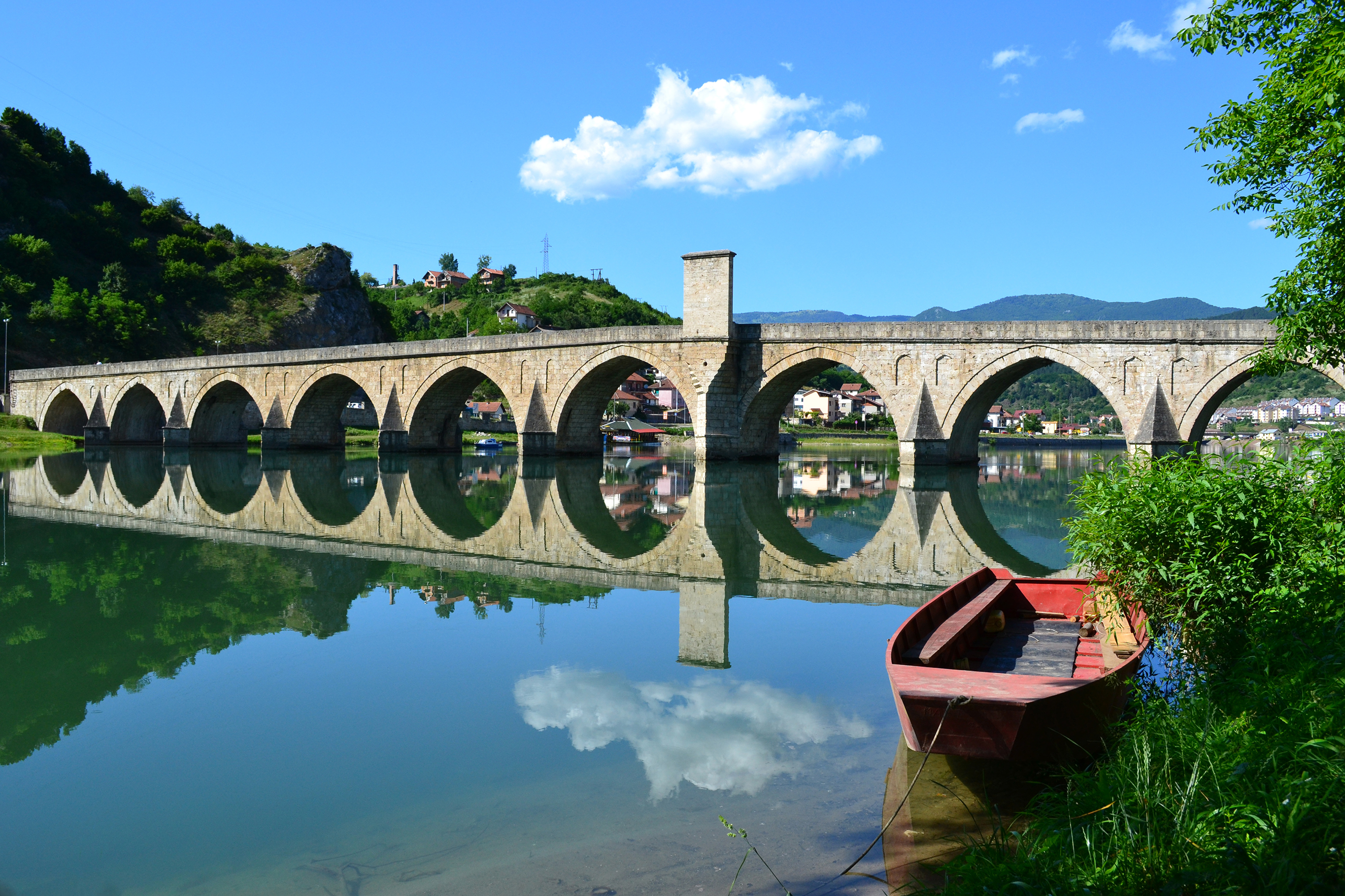 Srpskohrvatski / српскохрватски: This image was uploaded as part of Trace of Soul 2015.